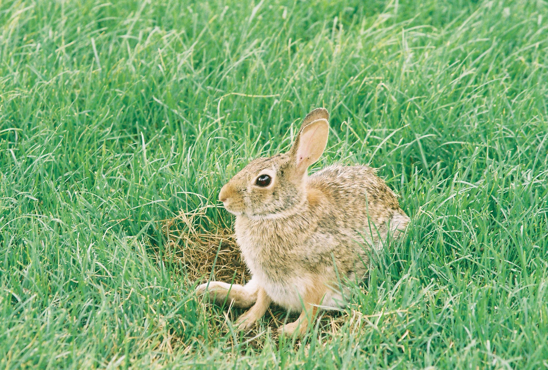 An Eastern cottontail (Sylvilagus floridanus) sitting or possibly nesting in the grass in New Berlin, Wisconsin. Shot with Konica Minolta VX100 color 35mm film in a Ricoh XR-P SLR.